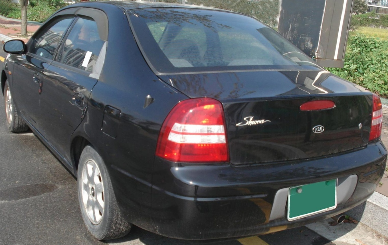 Kia Shuma